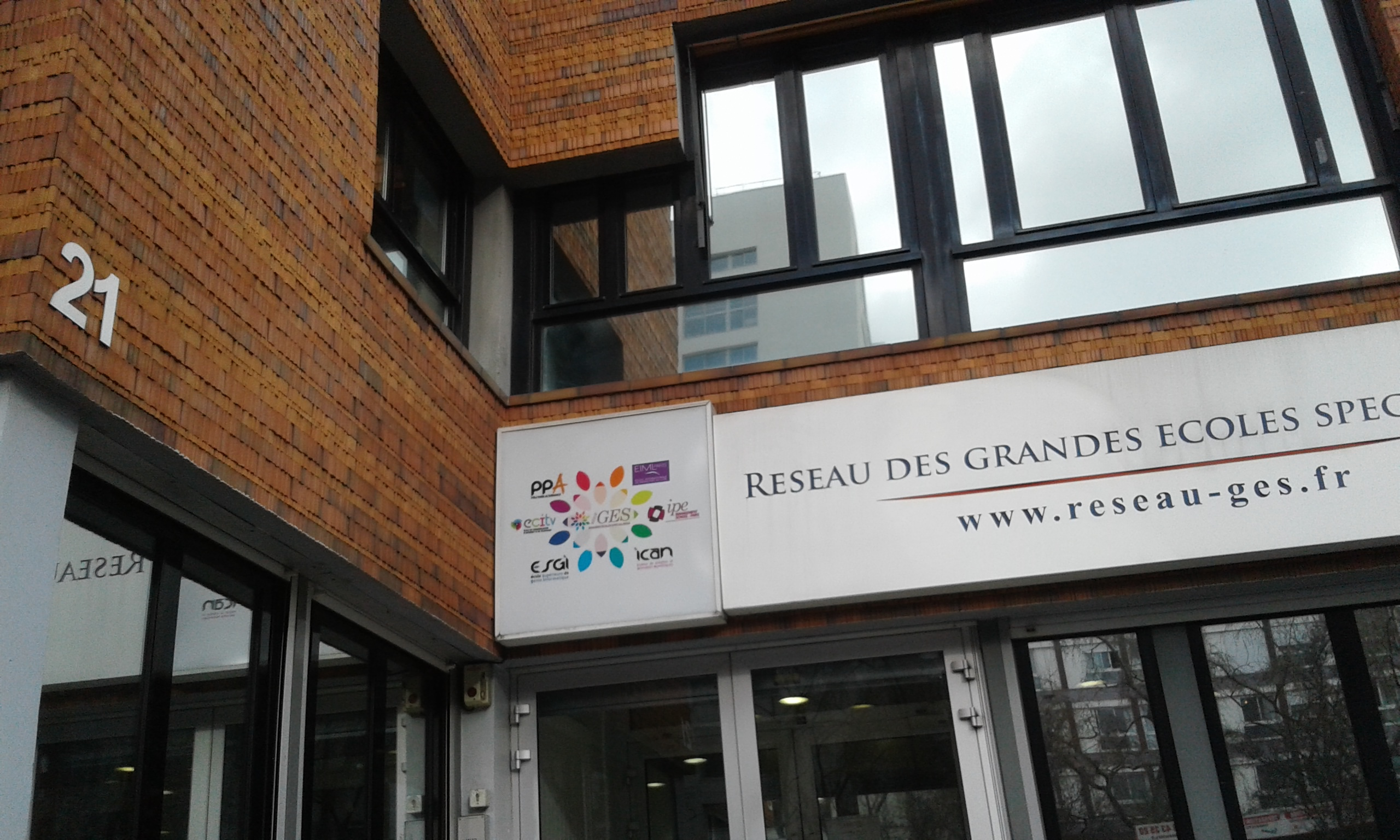 Entrance to IPE Paris Campus